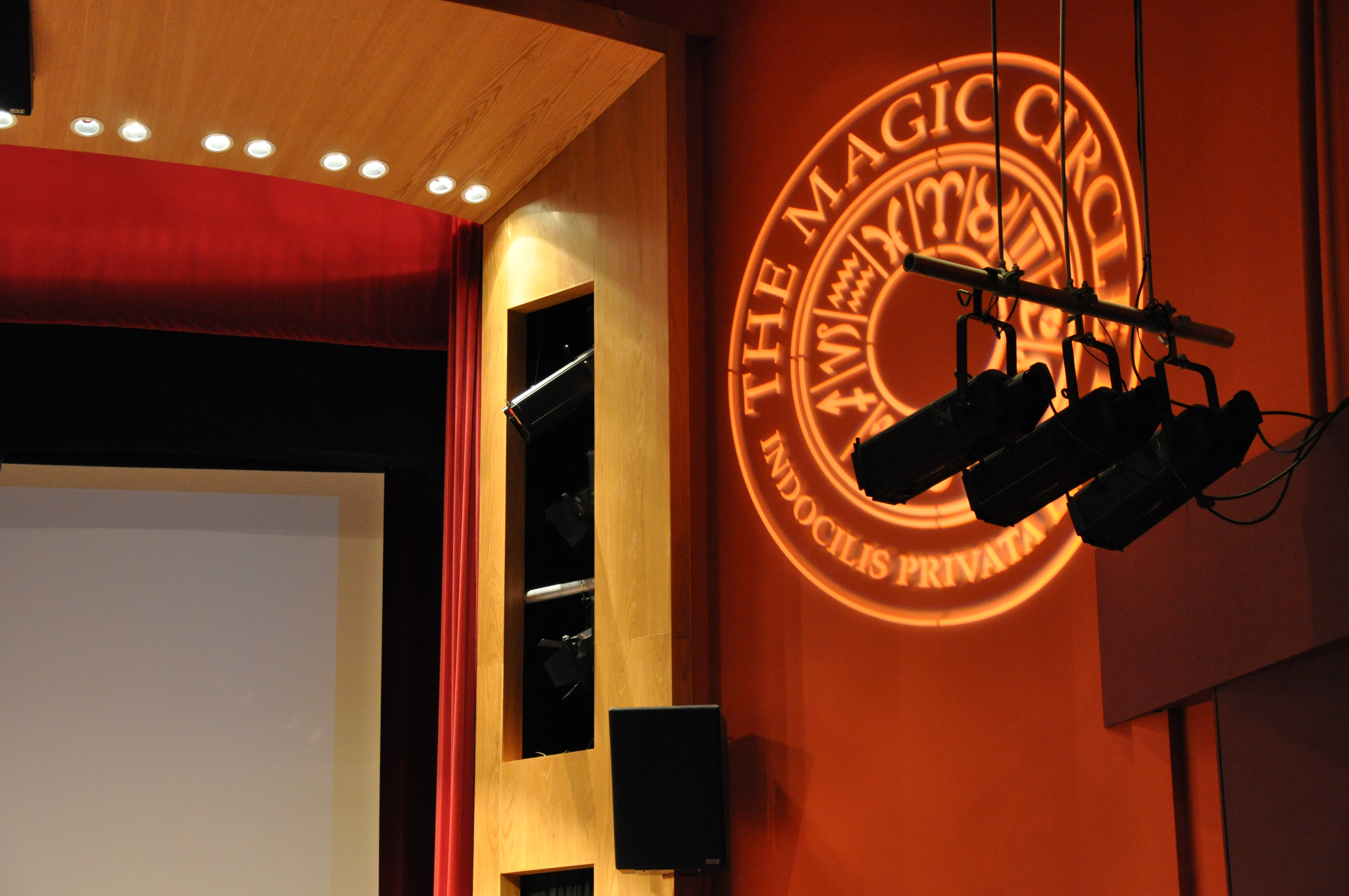 The Magic Circle Logo projection, during Head conference